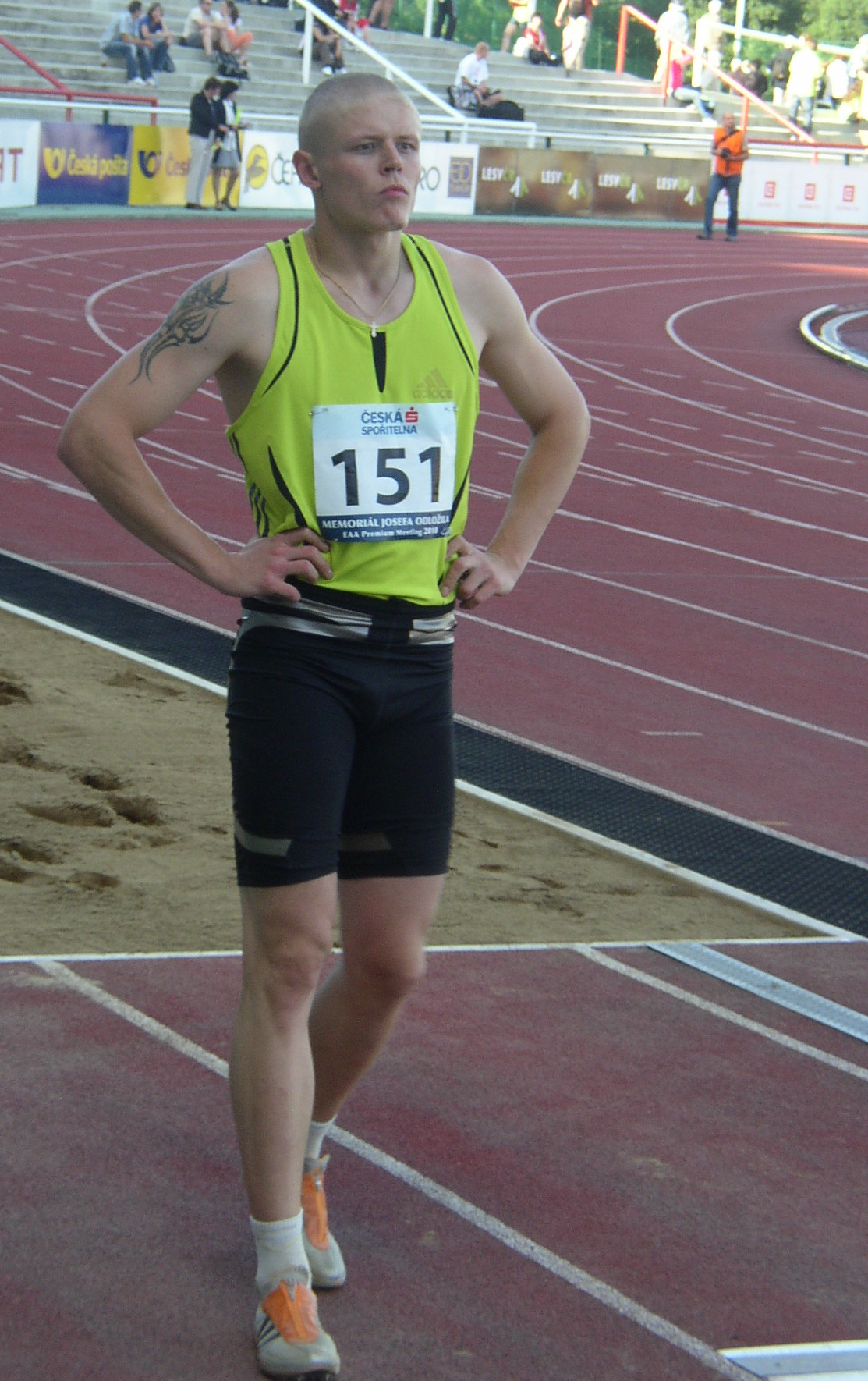 Athlete Oleksandr Soldatkin of Ukraine preparing for his attempt in long jump at 17th edition of the Josef Odložil Memorial (EAA Premium Meeting, Na Julisce Stadium, Prague, Czech Republic, 14 June 2010). Soldatkin ranked third in the competition with 7.92 m mark.